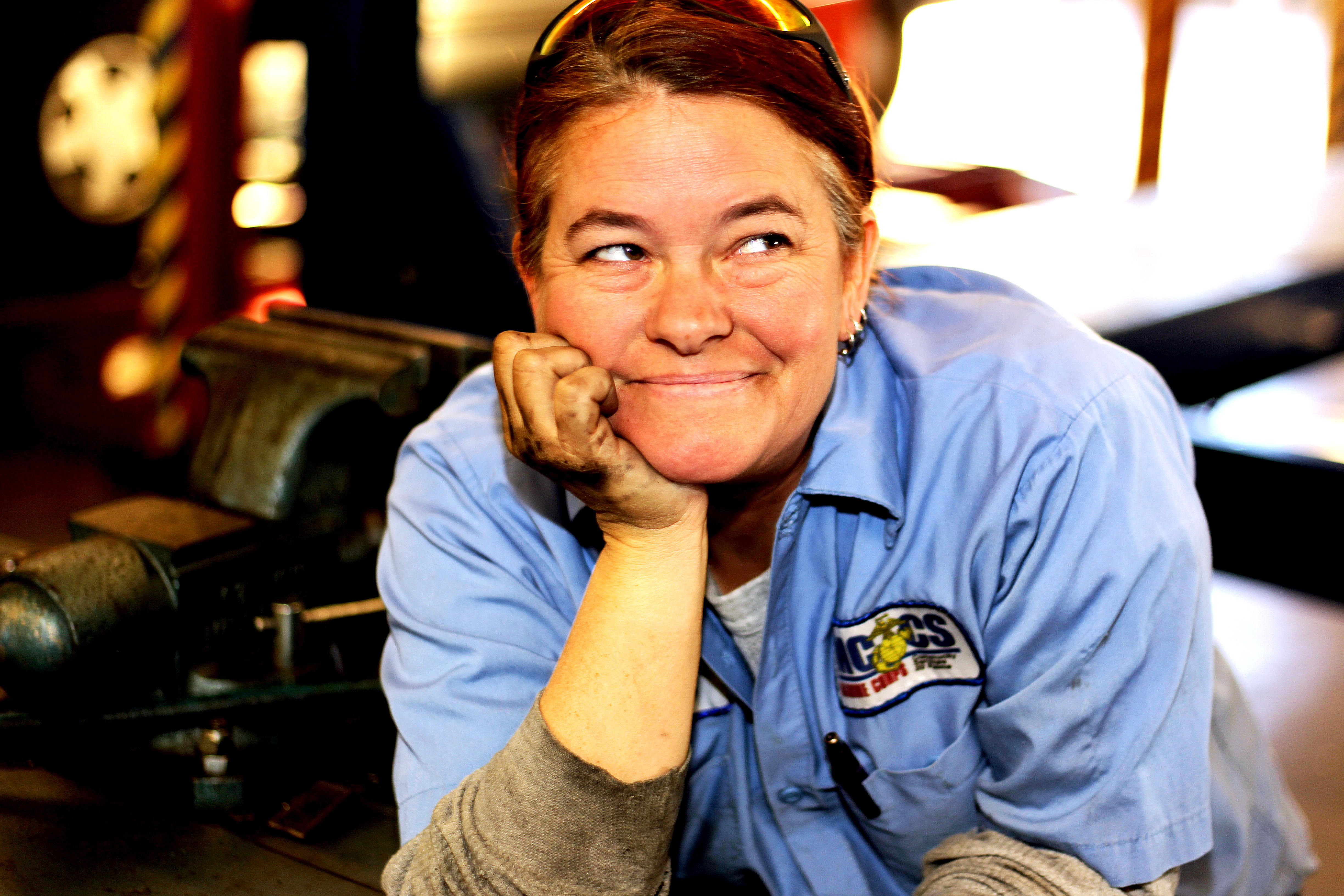 Jeanne Shaw has had a passion for automotives throughout her life. She has used this to follow a career and break the stigma of a normally male dominant profession. Shaw first learned about cars when she was just a child. Most little girls her age were interested in makeup. Automotive repair was a curiosity and passion sparked in her at a young age.